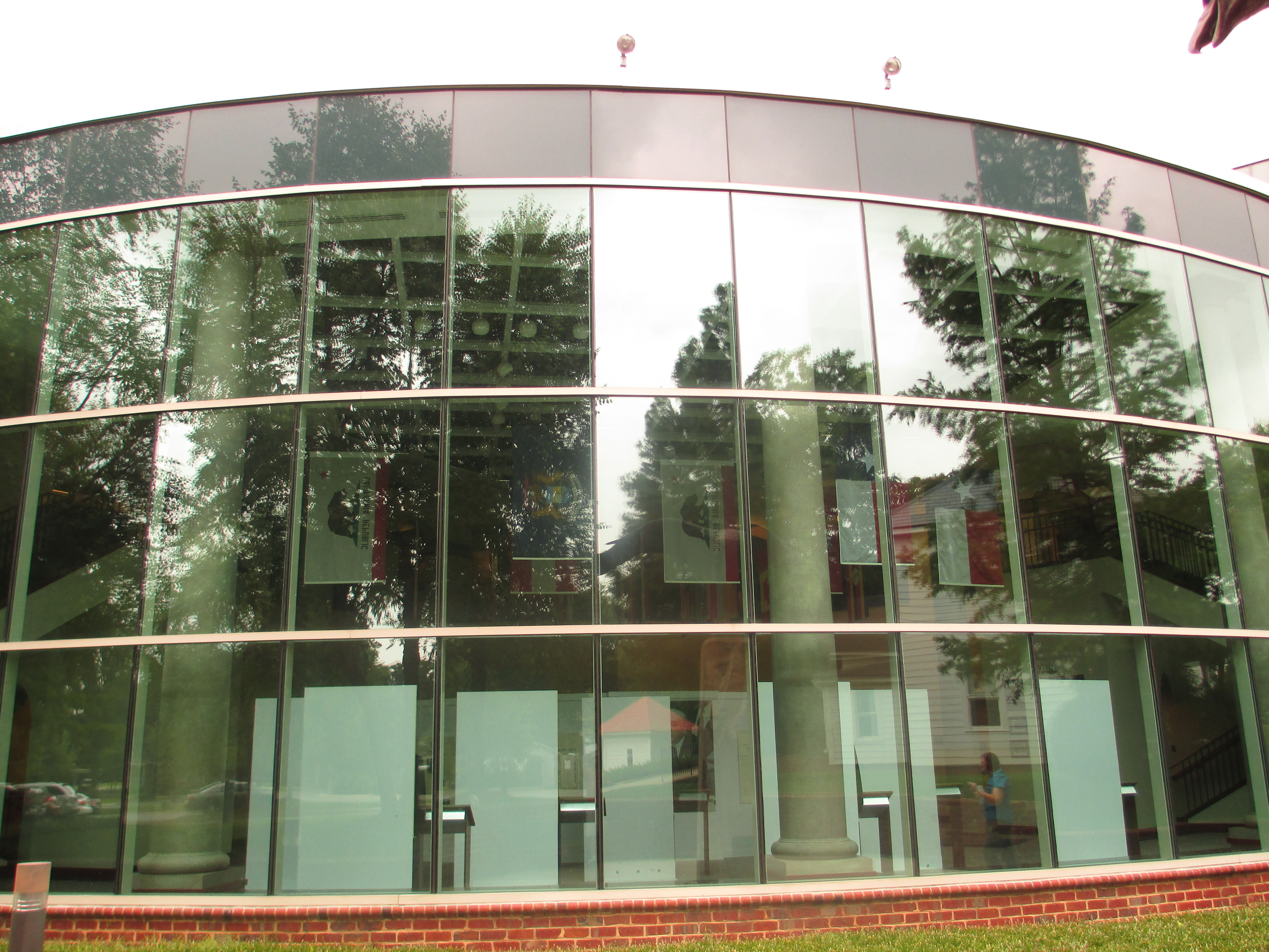 I took photo with Canon camera at Helms Center in Wingate, NC.